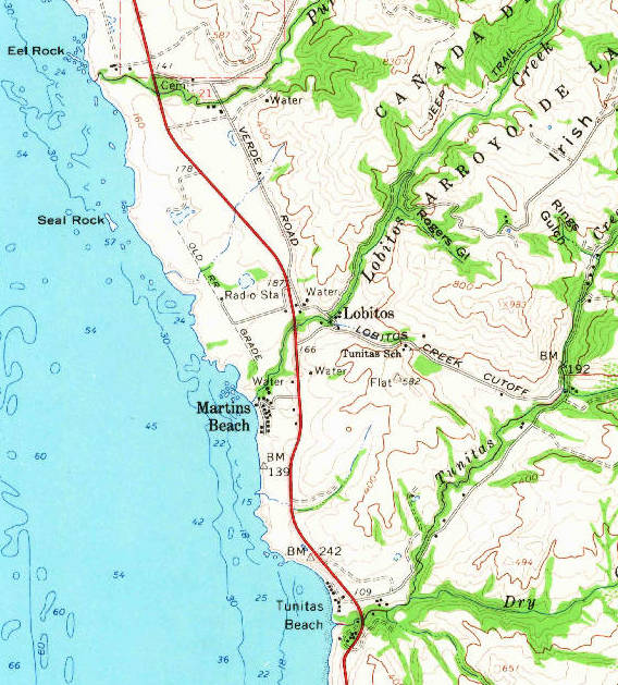 Highway 1 originally passed through Lobitos; it was later rerouted to the west of the village, closer to the old railroad route. Today, the portion of the former state highway through Lobitos has become Verde Road.